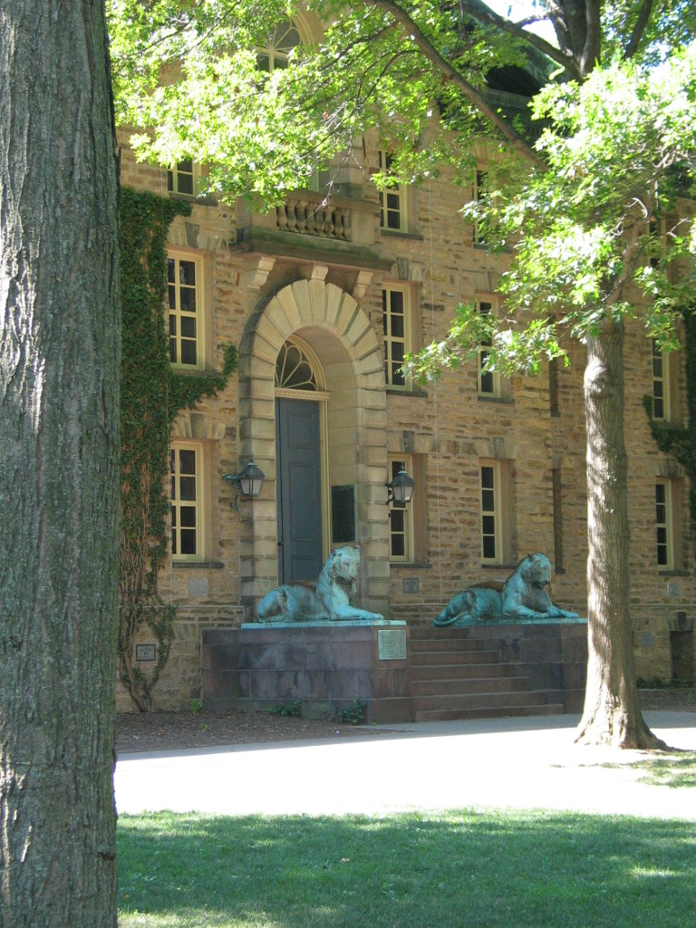 The closeup view of Nassau Hall entrance.